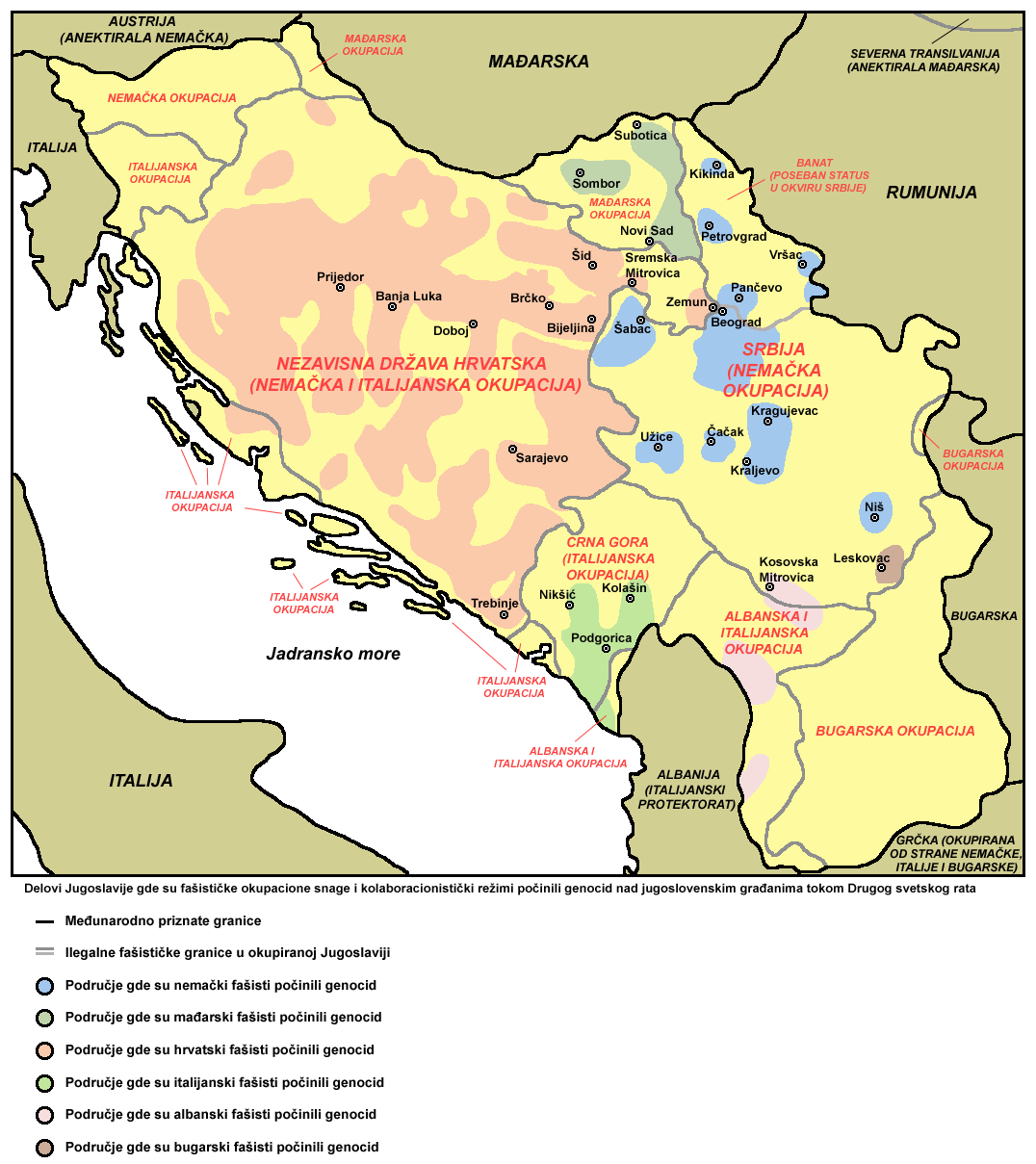 Parts of Yugoslavia where fascist occupational forces and collaborationist regimes committed genocide against Yugoslav citizens during World War II - Serbian language version.